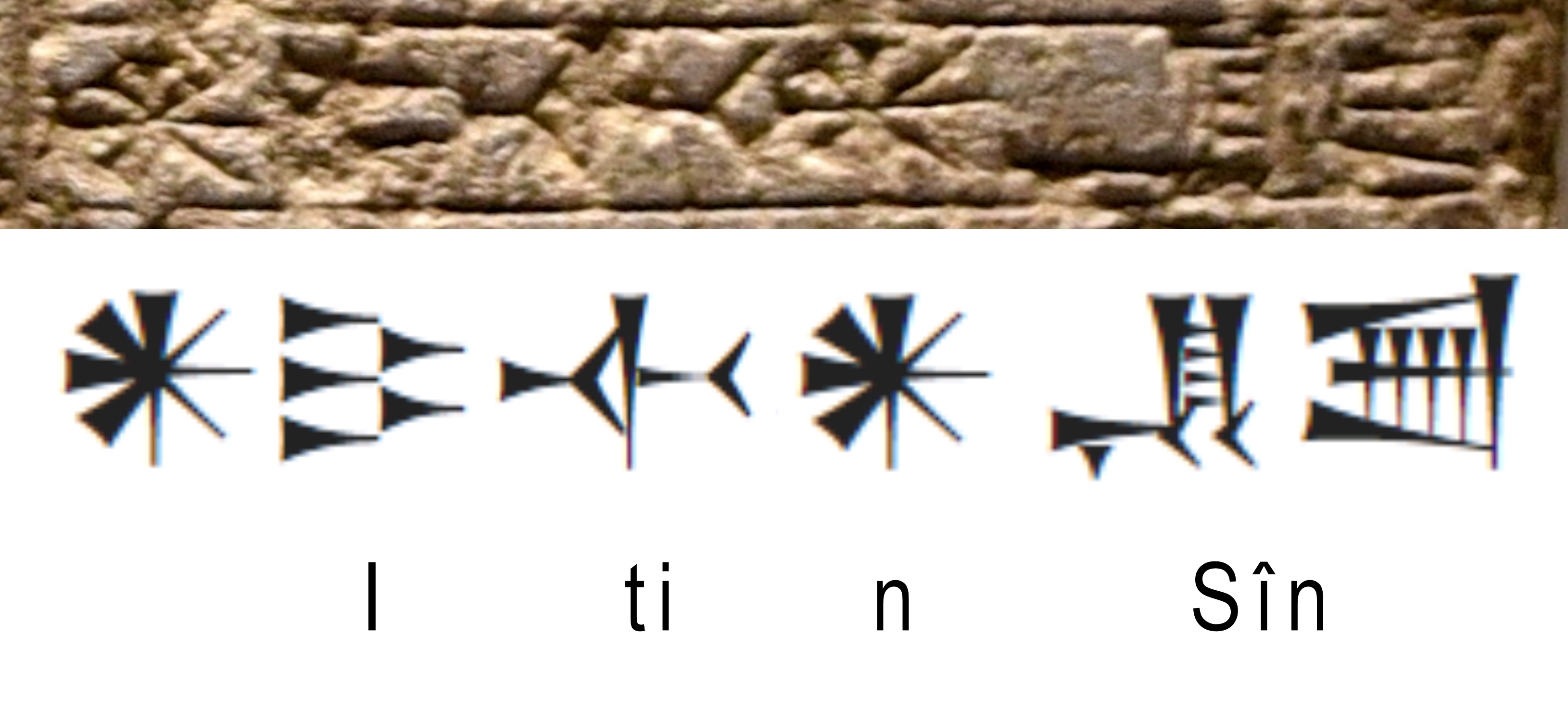 King Iddin-Sin name inscription